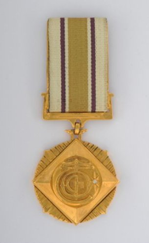 David Agmashenebeli Order